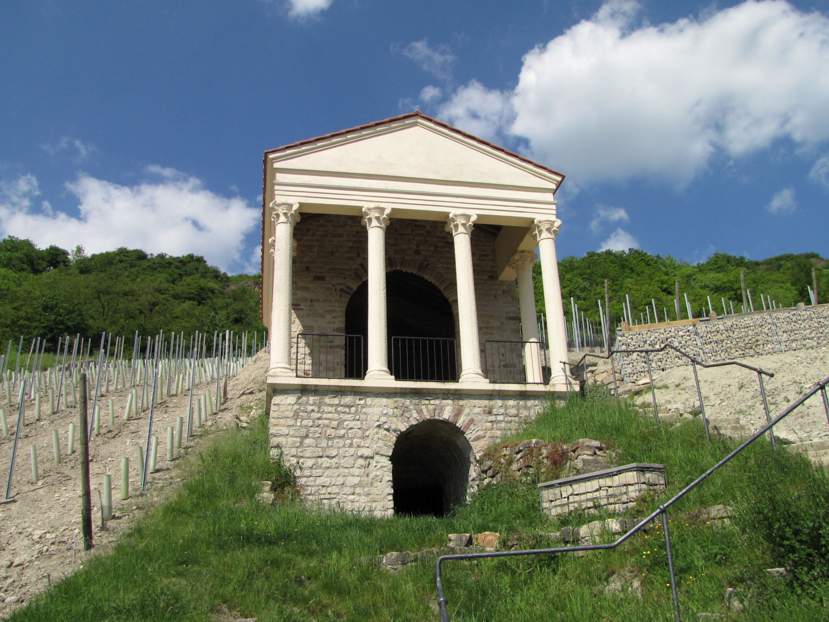 Ancient Roman mausoleum nearby Igel/Mosel